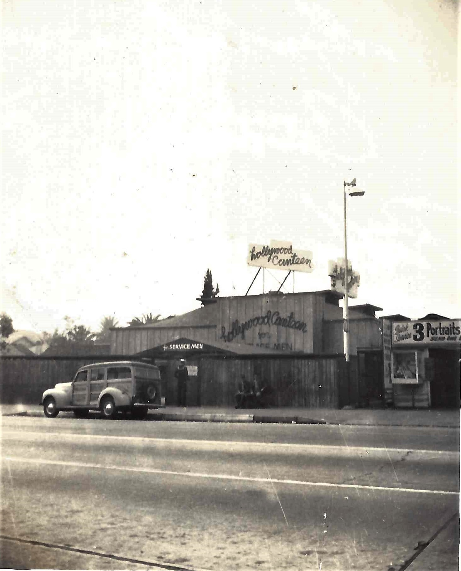 Photo of the Hollywood Canteen - by J.H. Elder Jr.